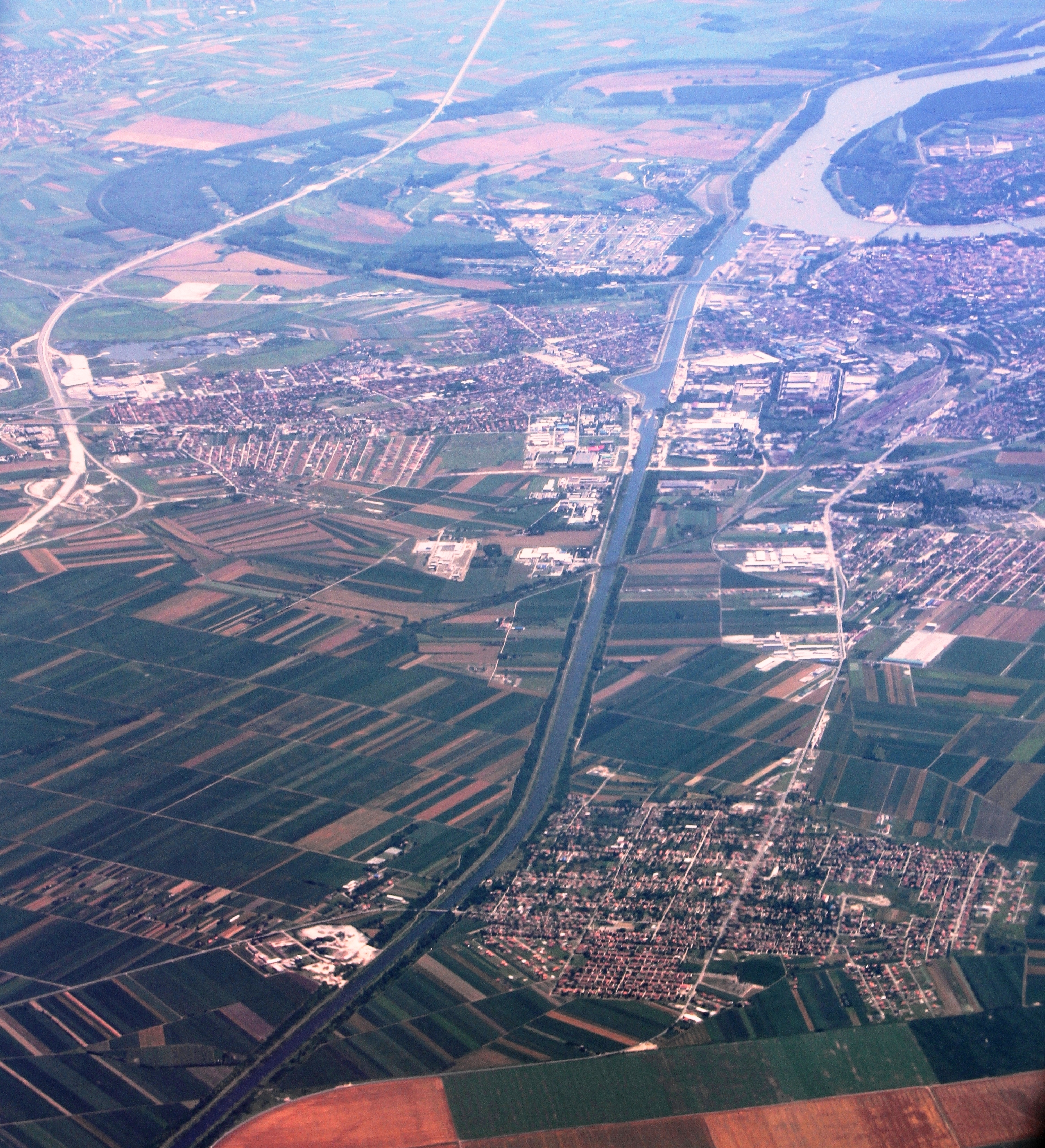 Aeril view - from the west towards east - over the agricultural lands of Vojvodina, northern Serbia.